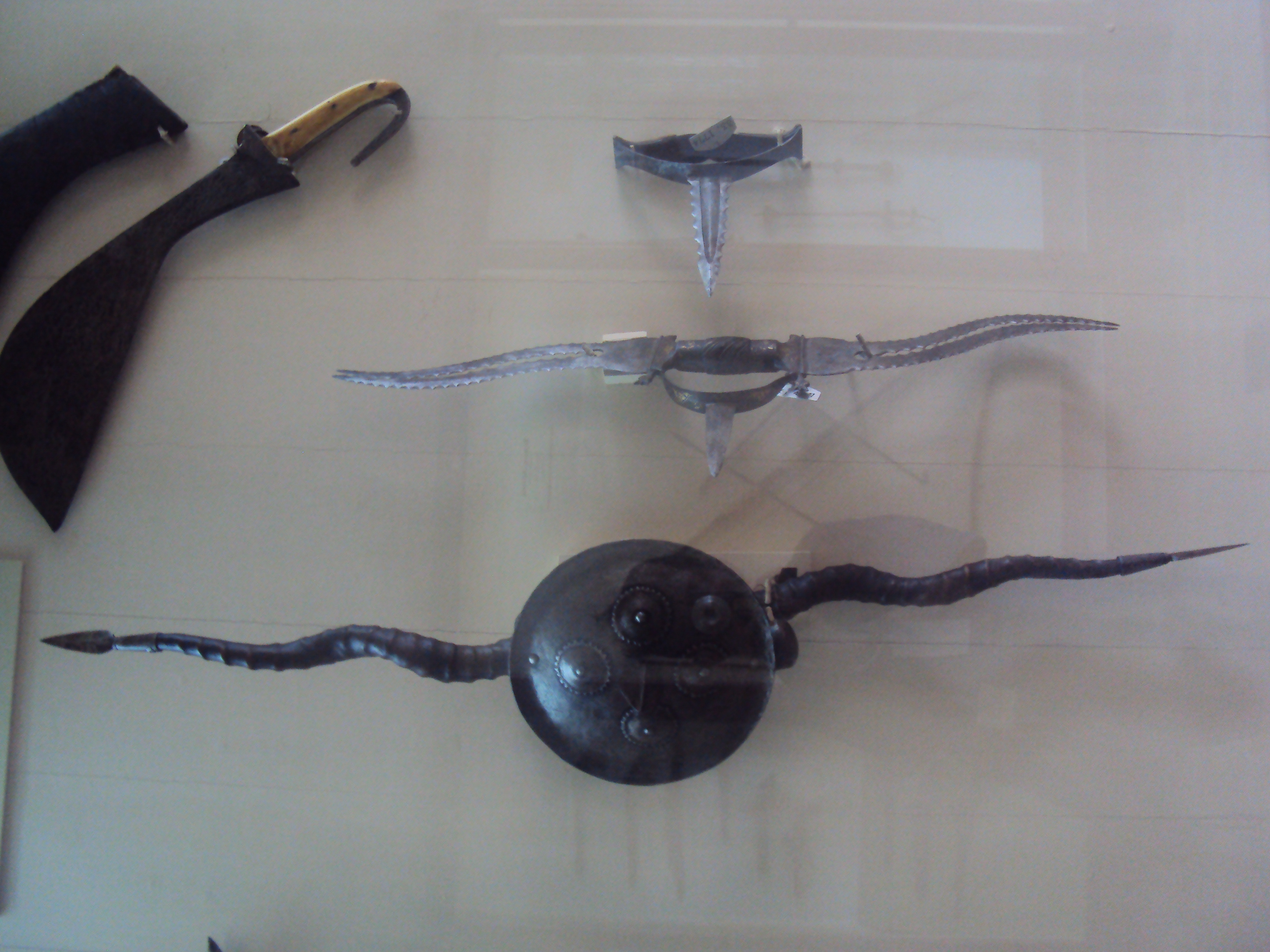 The Prince of Wales Museum of Western India, officially renamed as Chhatrapati Shivaji Maharaj Vastu Sangrahalaya